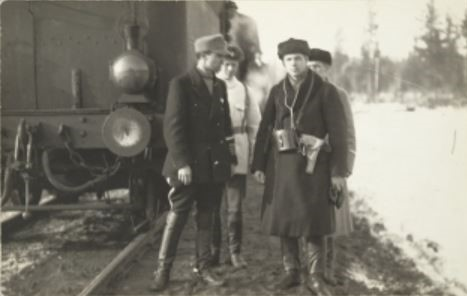 1918 Finnish Civil War: White Guard commander Aarne Sihvo at the Rautu railway station after the Battle of Rautu, 5 April 1918.